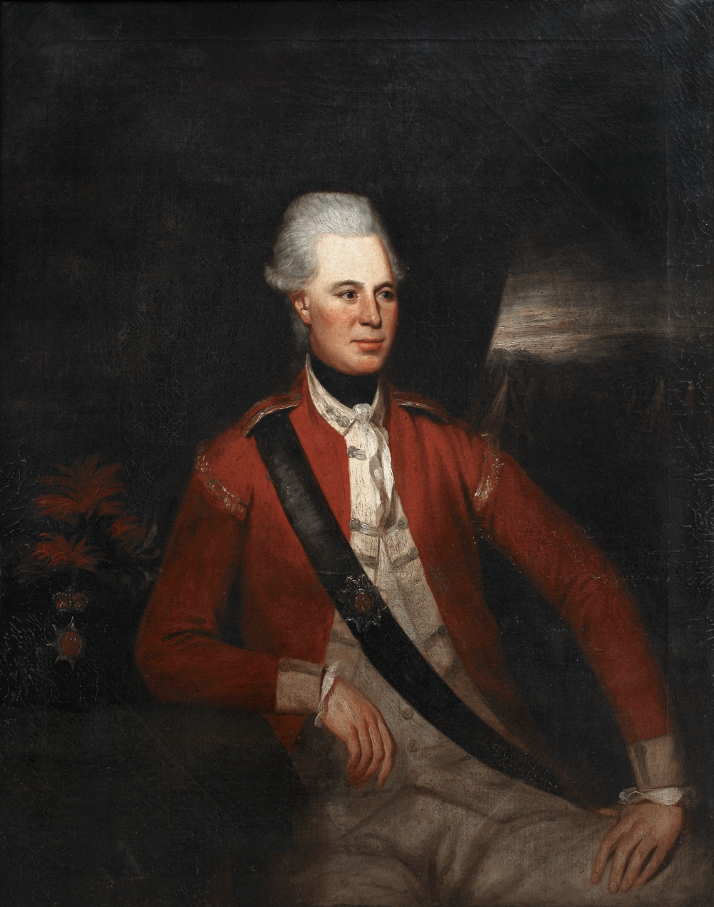 Portrait of General and Lieutenant Governor of Cape Breton Island William Macarmick